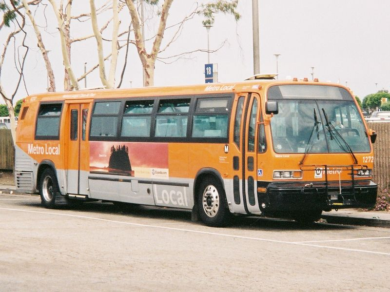 Los Angeles Metro Local ロサンゼルス郡都市圏交通局のバス「Metro Local」 2004.05.21 Photo by Cassiopeia_sweet.